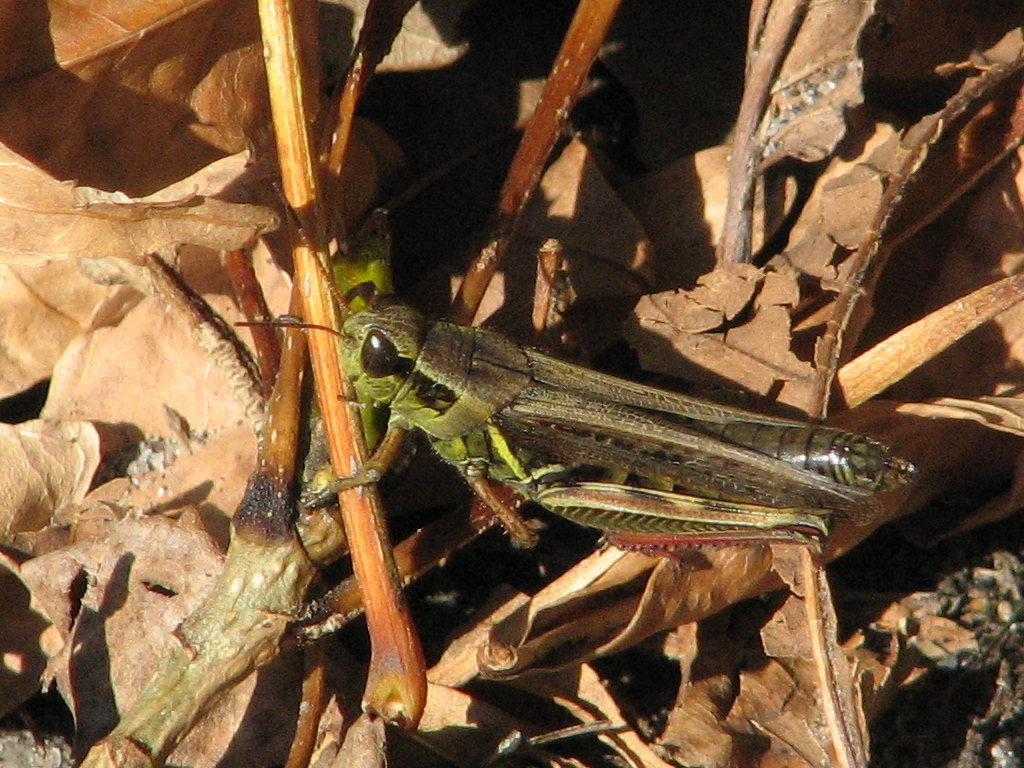 Red-legged Grasshopper (Melanoplus femurrubrum), Ottawa, Ontario, Canada